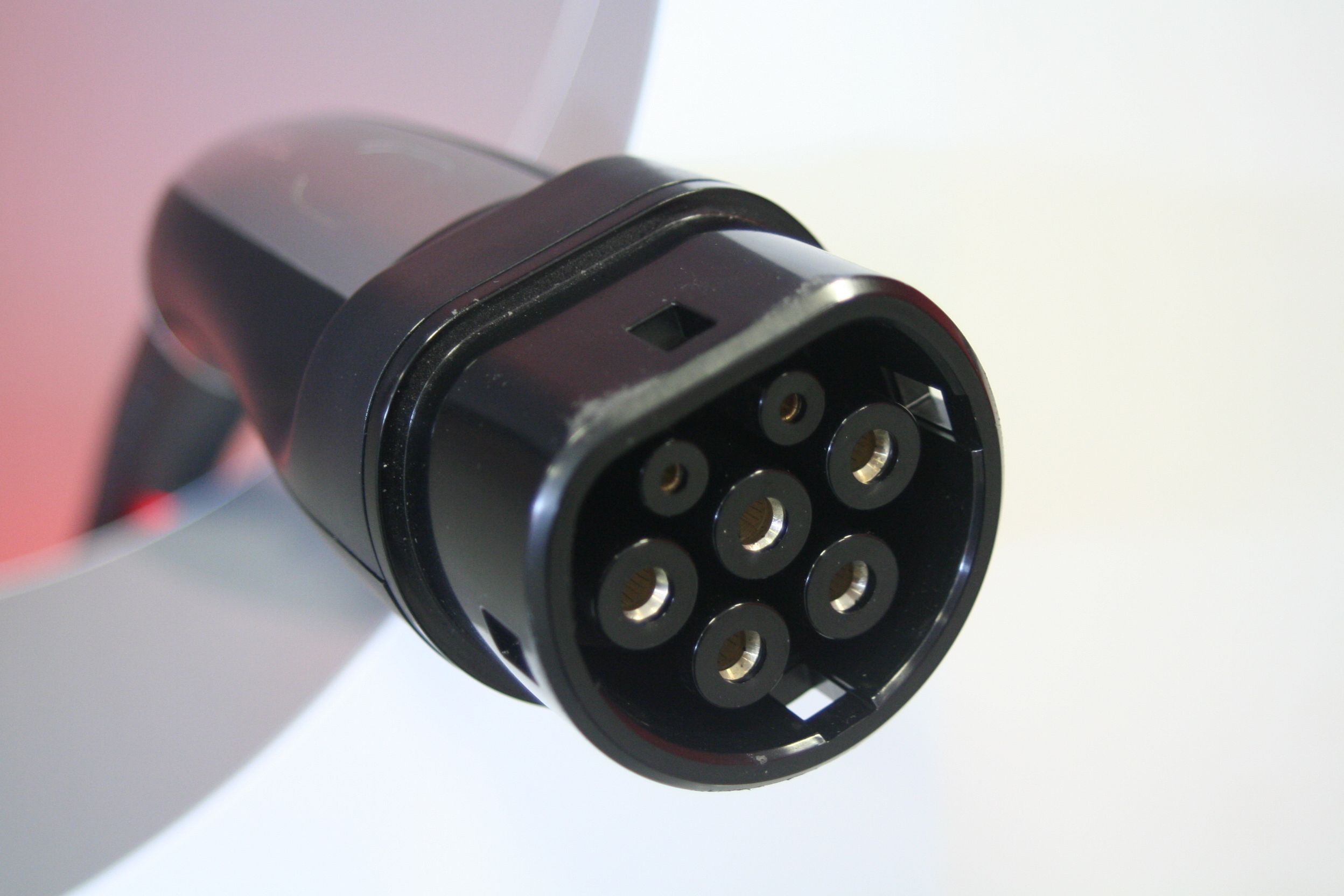 European Tesla Motors Tesla station Supercharger showing modified Type 2 connector-outline charge connector. Photographed at Frankfurt Tesla showroom.